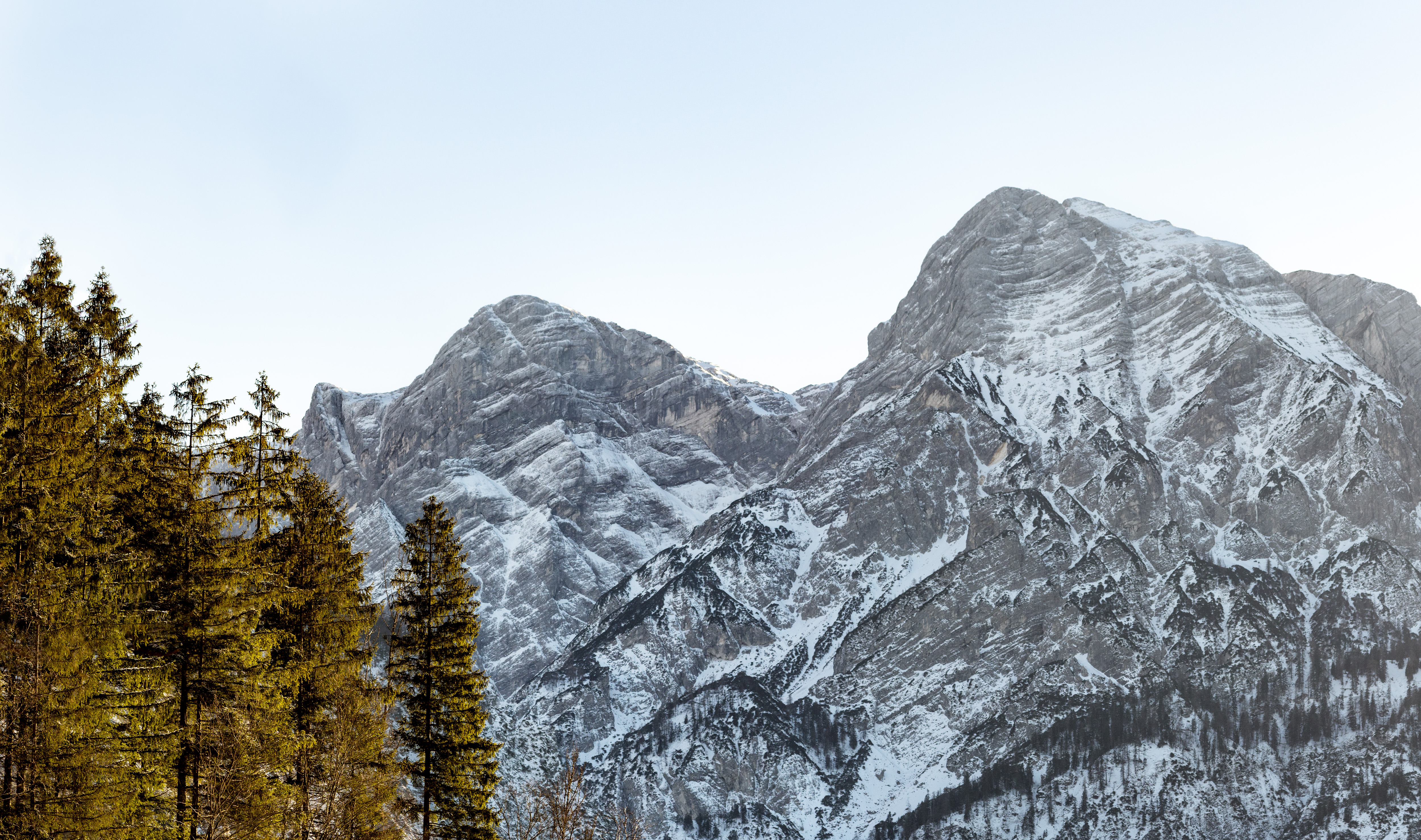 Grünau im Almtal, Österreich